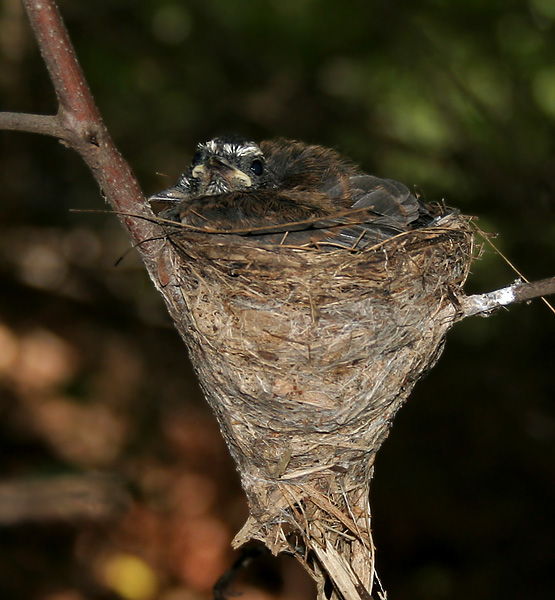 White-throated Fantail Rhipidura albicollis -albogularis race at Ananthagiri Hills, in Rangareddy district of Andhra Pradesh, India.